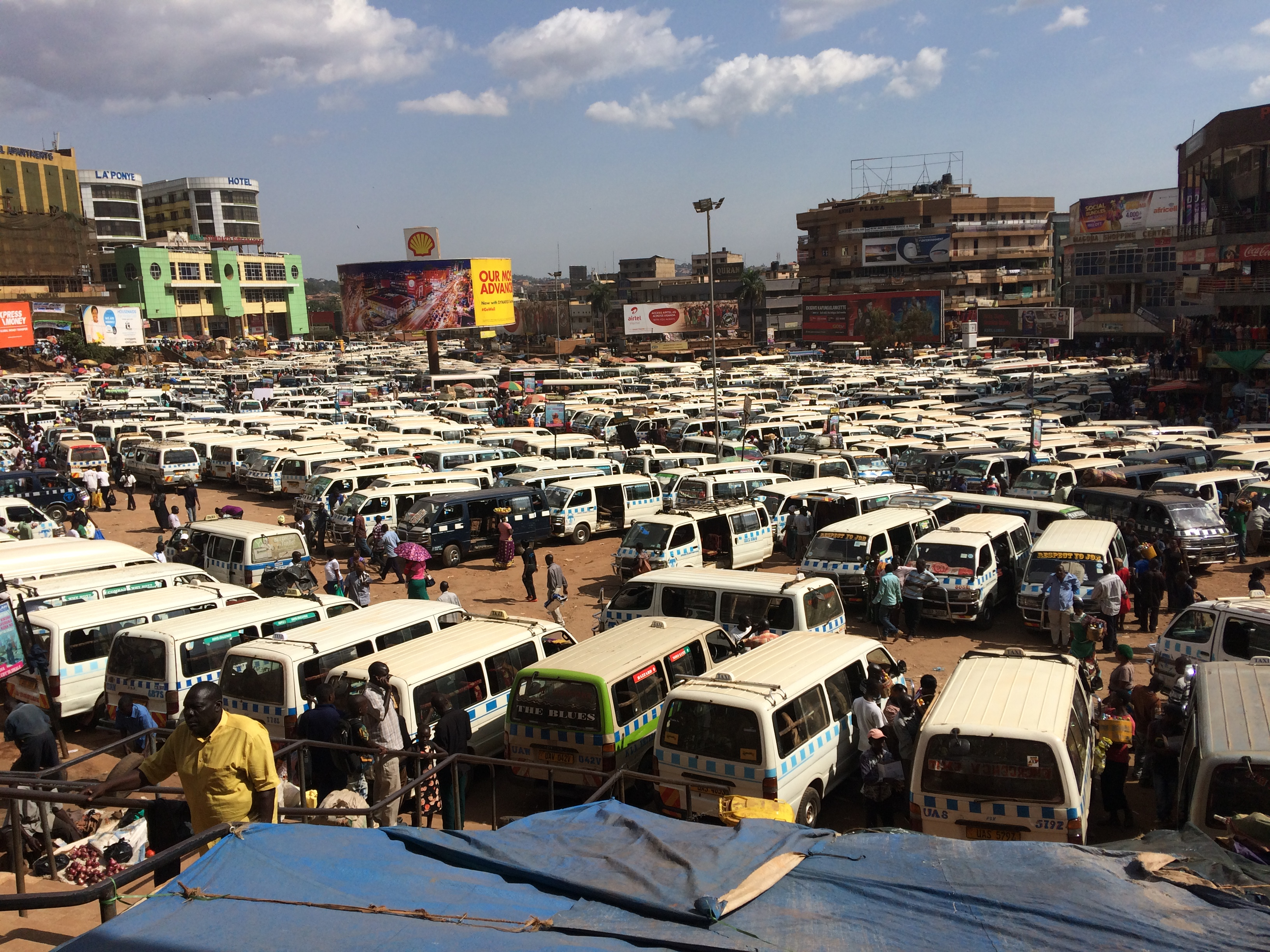 There is an overwhelming mix of taxis, motorbikes and people at the taxi park and one can travel to anywhere in the country - one way or another. Kampala is a city on the go and never rests. This is an image with the theme "Africa on the Move or Transport" from: Uganda